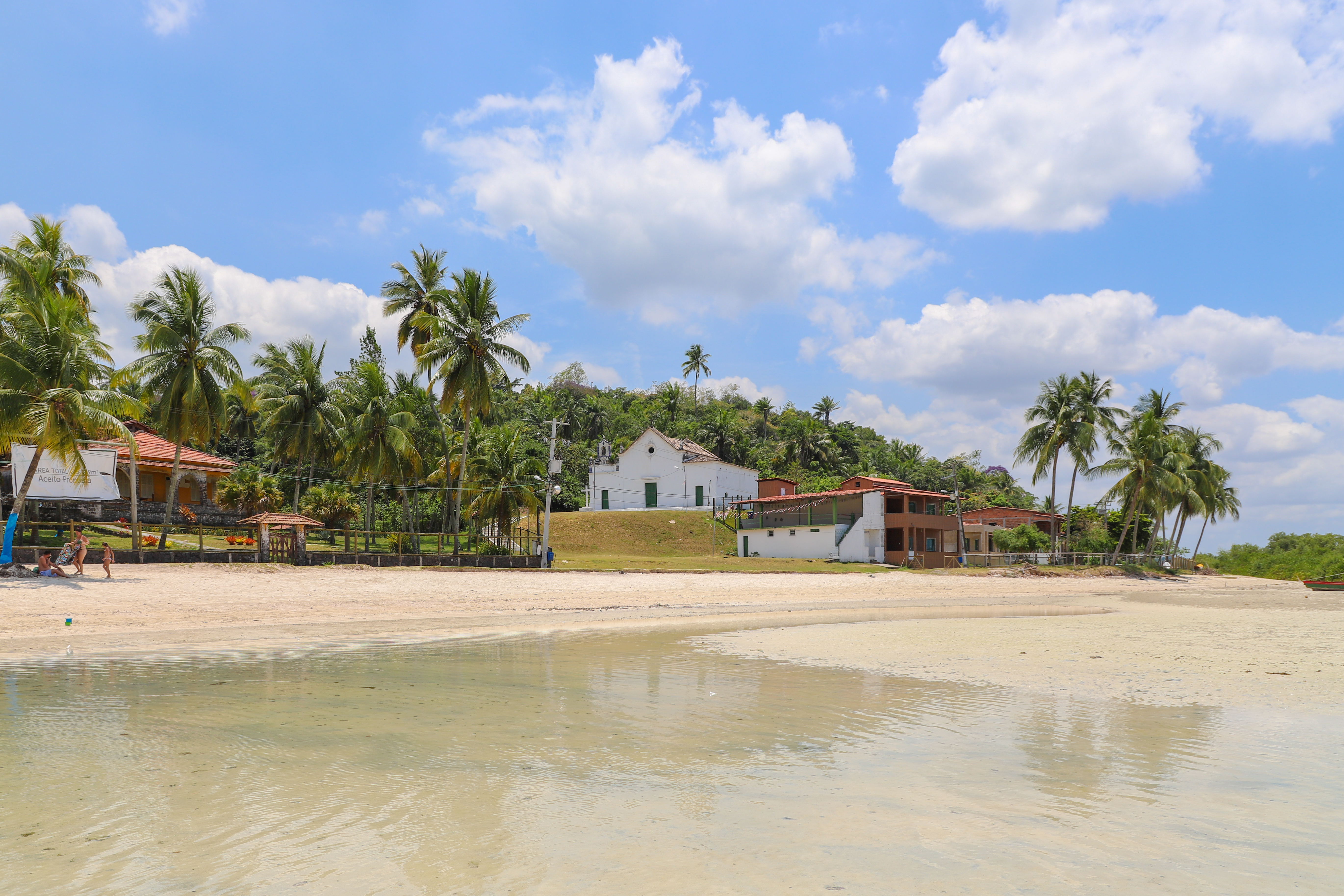 Igreja Matriz de Nossa Senhora das Neves, Ilha de Maré, Salvador, Bahia, Brazil.